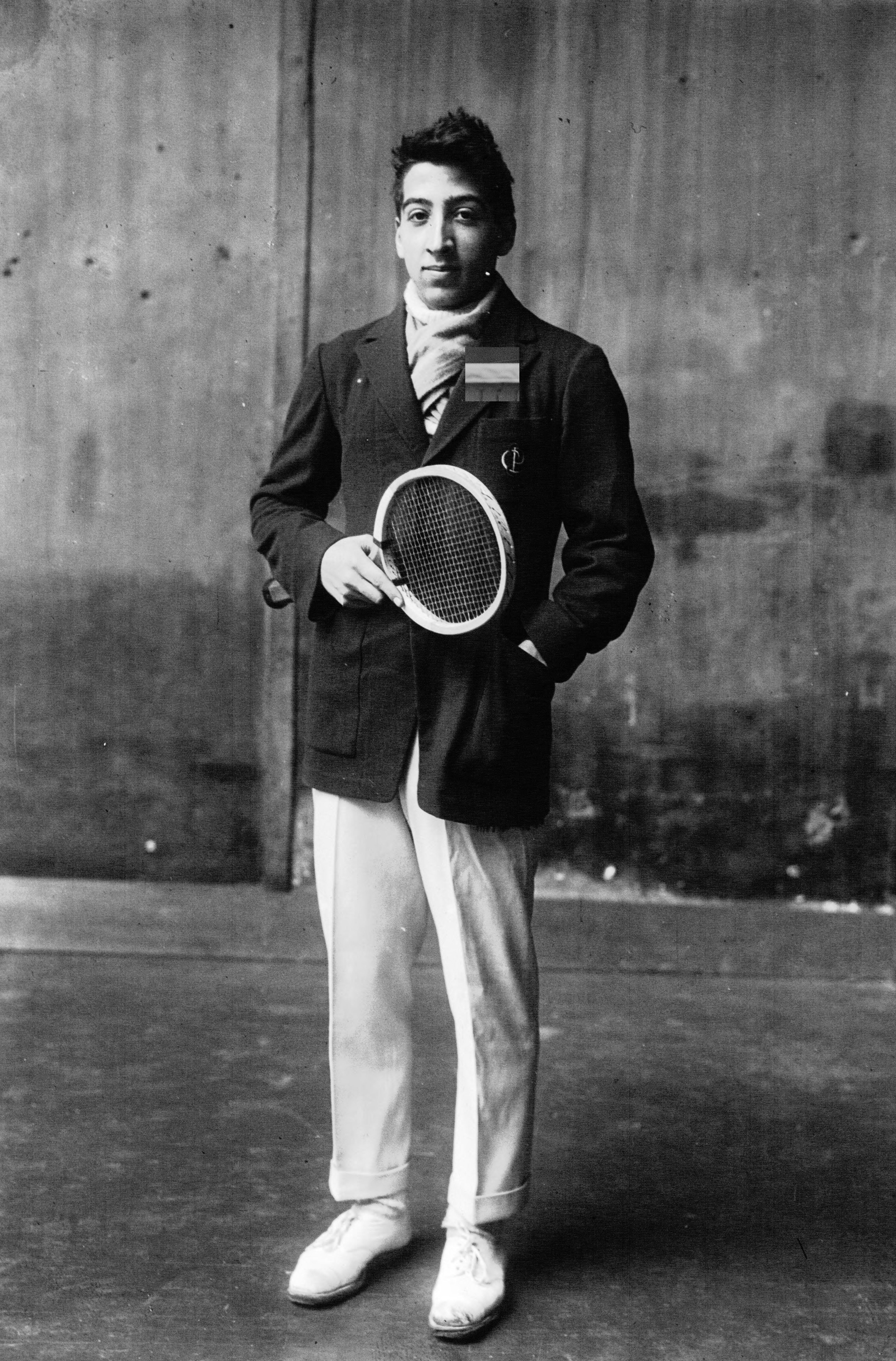 French tennis player Rene Lacoste